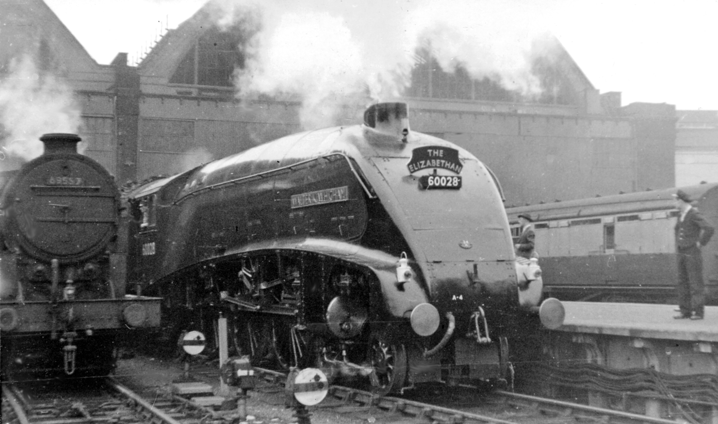 Departure from King's Cross of the inaugural run of the 'Elizabethan'. Superseding the post-war 'Non-Stop', the 'Capitals Limited' (introduced in 1949 on a schedule of 7 hr. 6 min.), on 29 June 1953, after the Queen's Coronation, the 'Non-Stop' became 'The Elizabethan' from that summer, with a schedule of 6 hr. 45 min. Here we see it leaving King's Cross on its inaugural run, with Gresley A4 4-6-2 No. 60028 'Walter K. Whigham' (built 4/37 as No. 4487 'Sea Eagle', renamed 10/47, withdrawn 12/62). As is well-known, crews on the 'Non-Stops' changed over half-way by means of the corridor-tenders provided. (On this occasion, the men also wore special badges and scrolls on their uniforms). On the left is one of the N2 class 0-6-2Ts that worked all the local trains, also much empty stock, in and out of King's Cross.